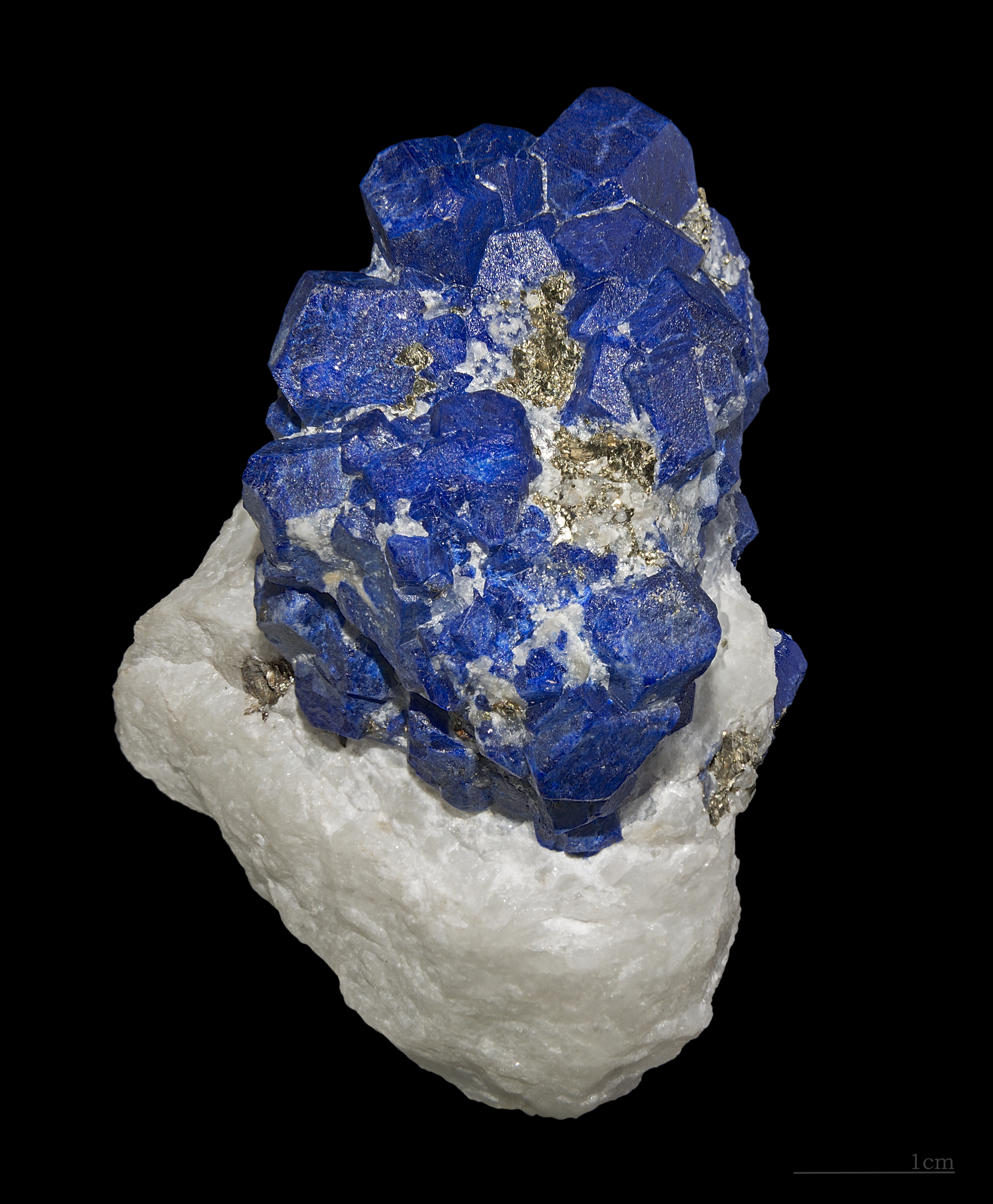 Lazurite Locality : Sar-e-Sang District, Koksha Valley (Kokscha; Kokcha), Badakhshan (Badakshan; Badahsan) Province, Afghanistan.